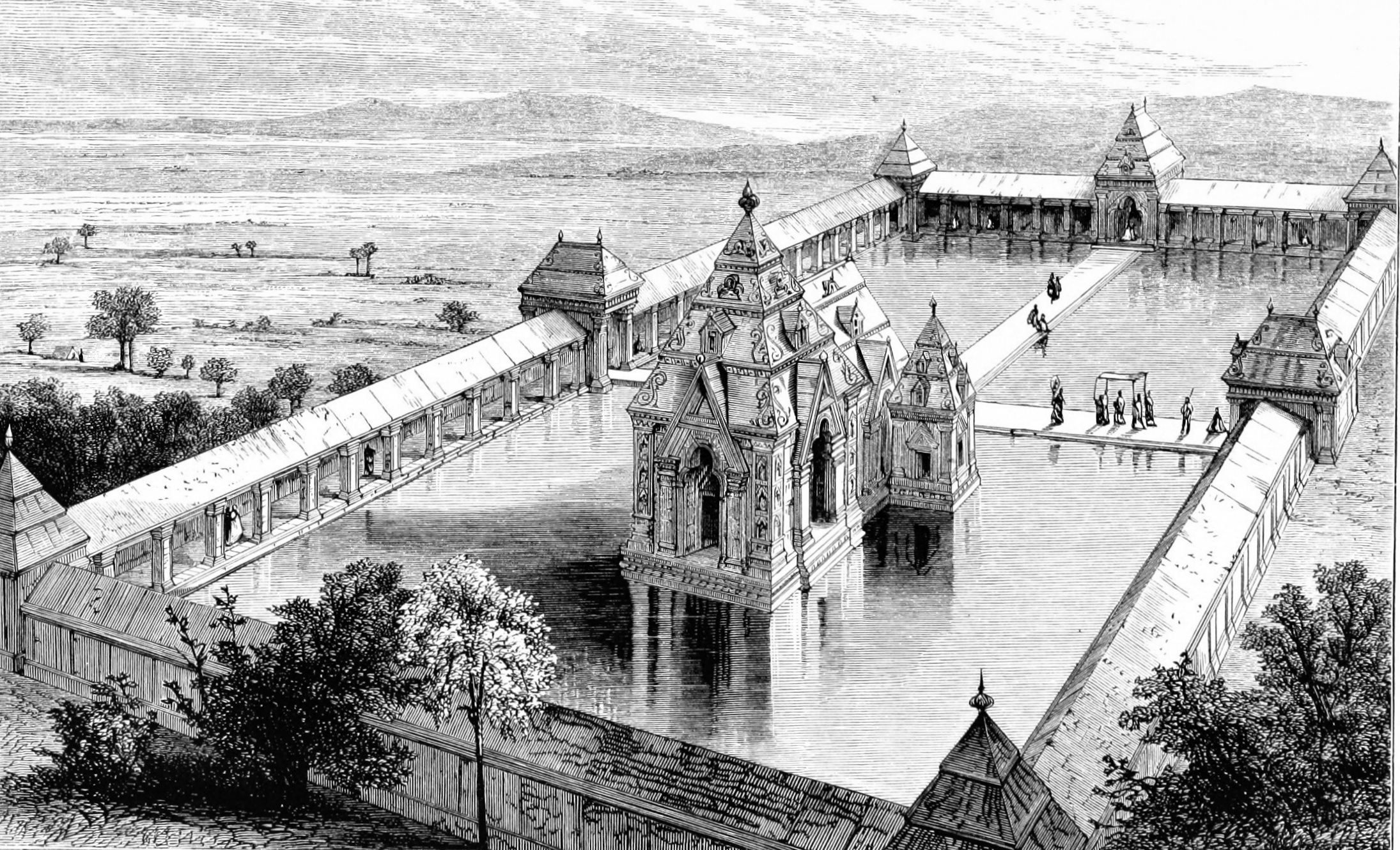 Image taken from: Title: "Letters from India and Kashmir: written 1870; illustrated and annotated 1873. [By J. Duguid. With plates.]", "Appendix" Contributor: DUGUID, J. - Author of “Letters from India and Kashmir.” Author: India Shelfmark: "British Library HMNTS 10056.ff.22.", "British Library OC ORW.1986.a.2999" Page: 241 Place of Publishing: London Date of Publishing: 1874 Issuance: monographic Identifier: 001797978 Note: The colours, contrast and appearance of these illustrations are unlikely to be true to life. They are derived from scanned images that have been enhanced for machine interpretation and have been altered from their originals. If you wish to purchase a high quality copy of the page that this image is drawn from, please order it here. Please note that you will need to enter details from the above list - such as the shelfmark, the page, the book's volume and so on - when filling out your order. Following this or the link above will take you to the British Library's integrated catalogue. You will be able to download a PDF of the book this image is taken from, as well as view the pages up close with the 'itemViewer'. Click on the 'related items' to search for the electronic version of this work. Click here to see all the illustrations in this book and click here to browse other illustrations published in books in the same year. Please click on the tags shown on the right-hand side for other ways to browse the illustrations.